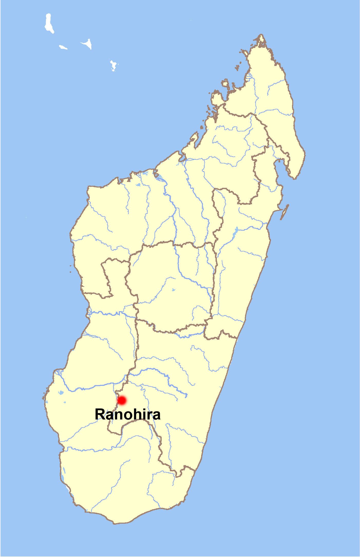 Location map for Madagascar. Left:42, Bottom:-26.5, Right: 52, Top:-11